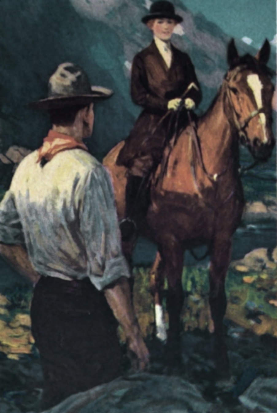 Frontispiece--from scan of book "The joyous trouble maker" (1918) by Jackson Gregory. Illus by Frank Tenney Johnson.